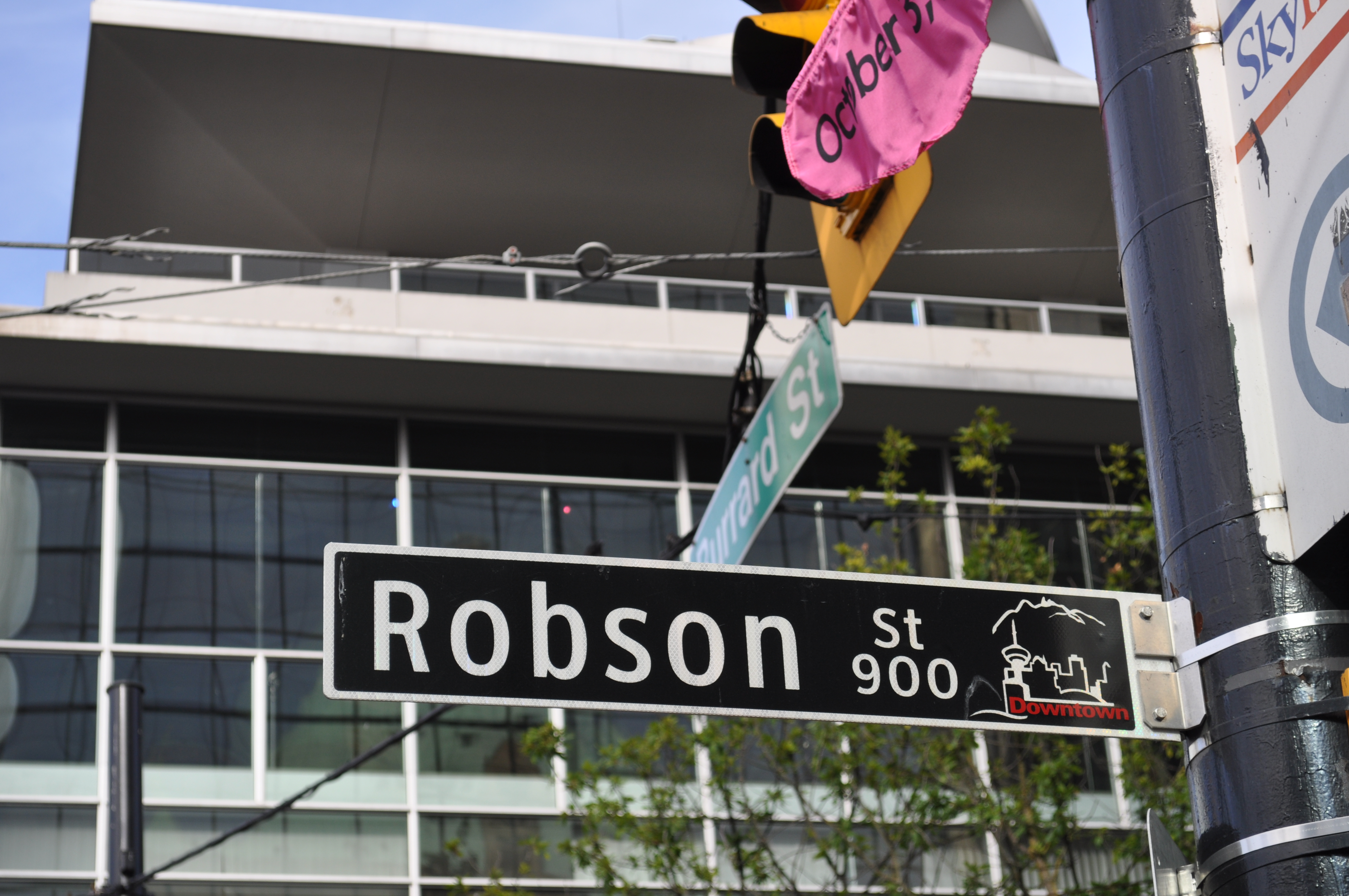 Robson Street sign, corner of Burrard, Vancouver, BC.